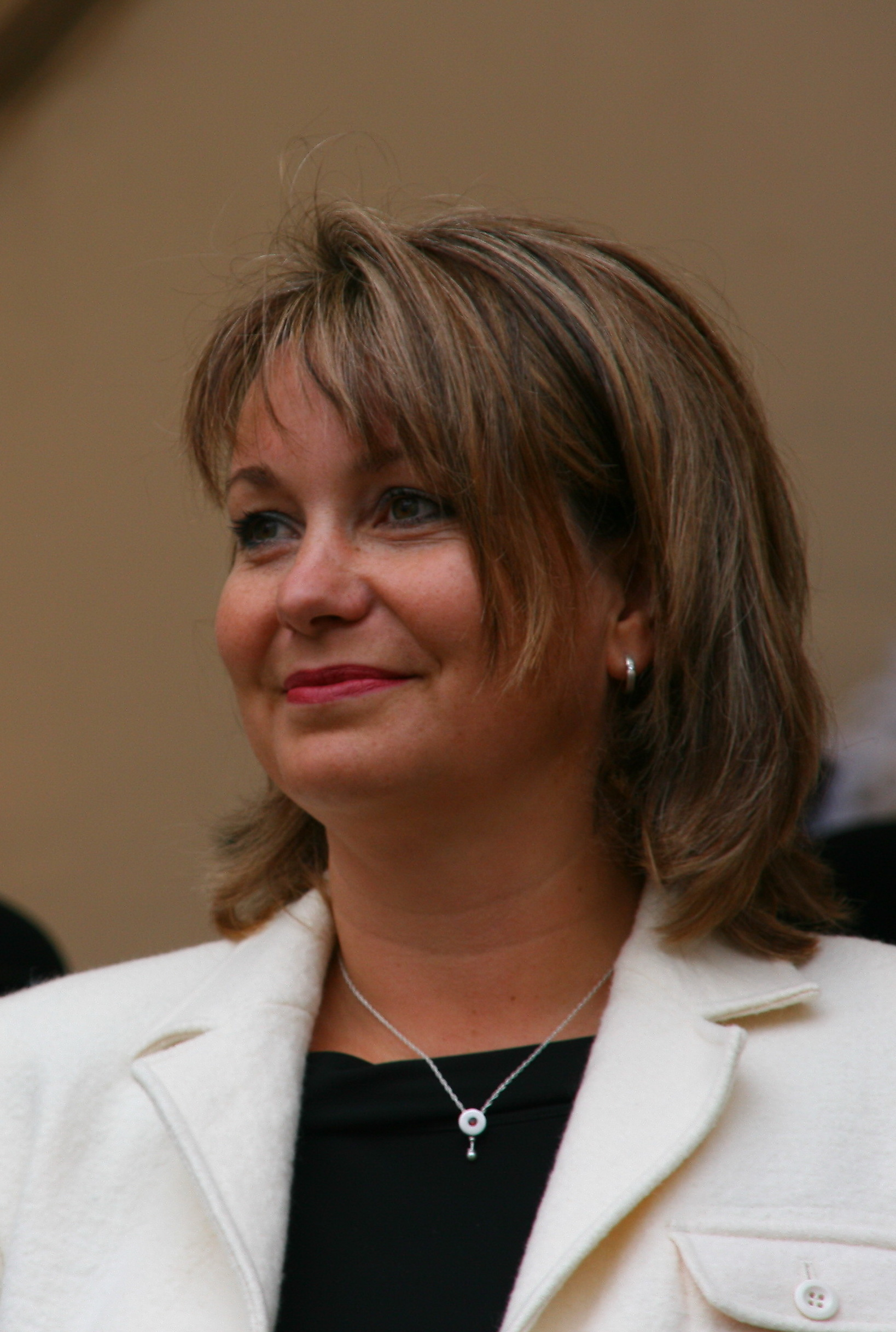 Sabine Becker, Lord mayoress of Überlingen, former mayoress of Meersburg, in this picture during the opening of the Winefest 2007.